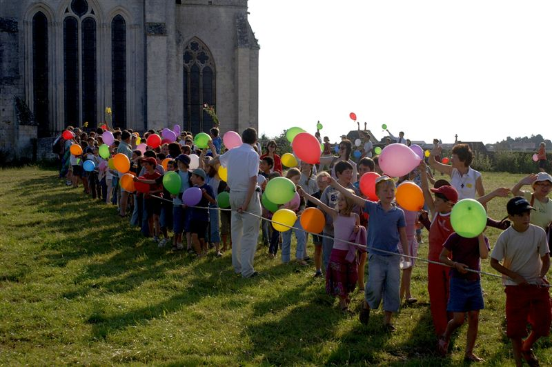 Children during a “Cana” session for couples and families, organized by the Chemin Neuf Community at the Sablonceaux Abbey (France, Charente-Maritime).